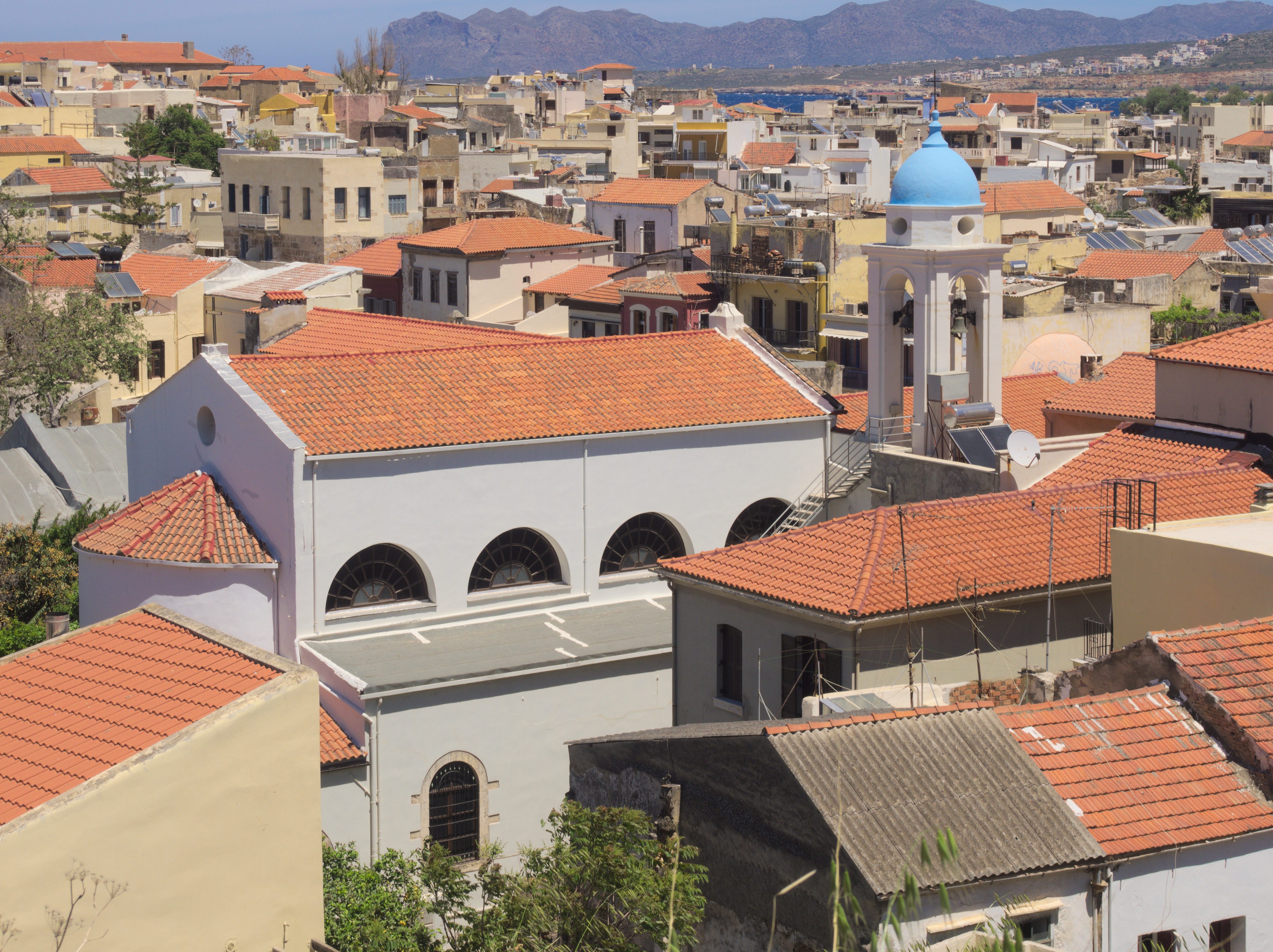 View of Chania catholic church from Sciavo cavalieri.